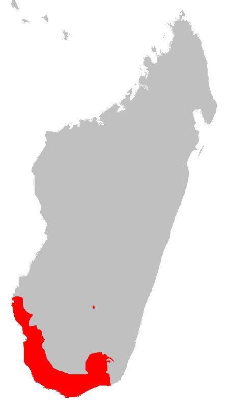 Madagascar spiny thickets ecoregion map